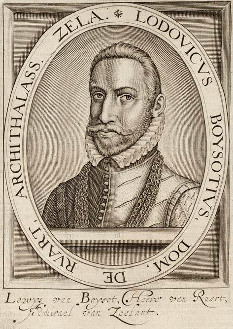 Louis de Boisot